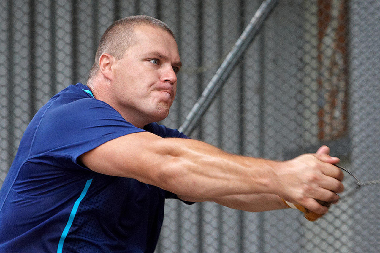 Krisztián Pars (Hungarian pronunciation: [ˈkristiaːn ˈpɒrʃ]; born 18 February 1982) is a Hungarian hammer thrower. He competed at the Summer Olympics in 2004, 2008, and 2012, winning the gold medal in 2012. He also won the 2012 and 2014 European championships.